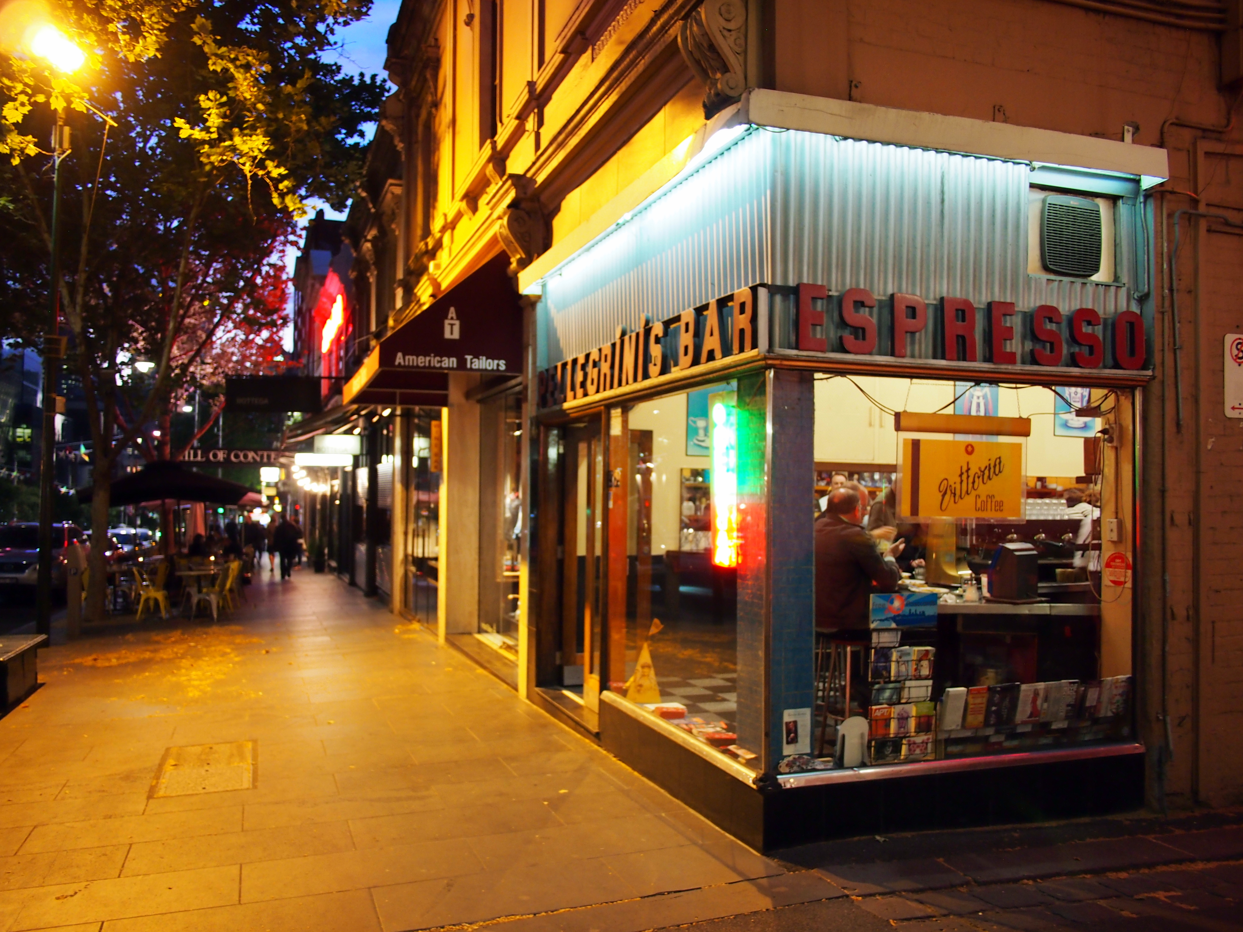 Pellegrini's cafe at dusk